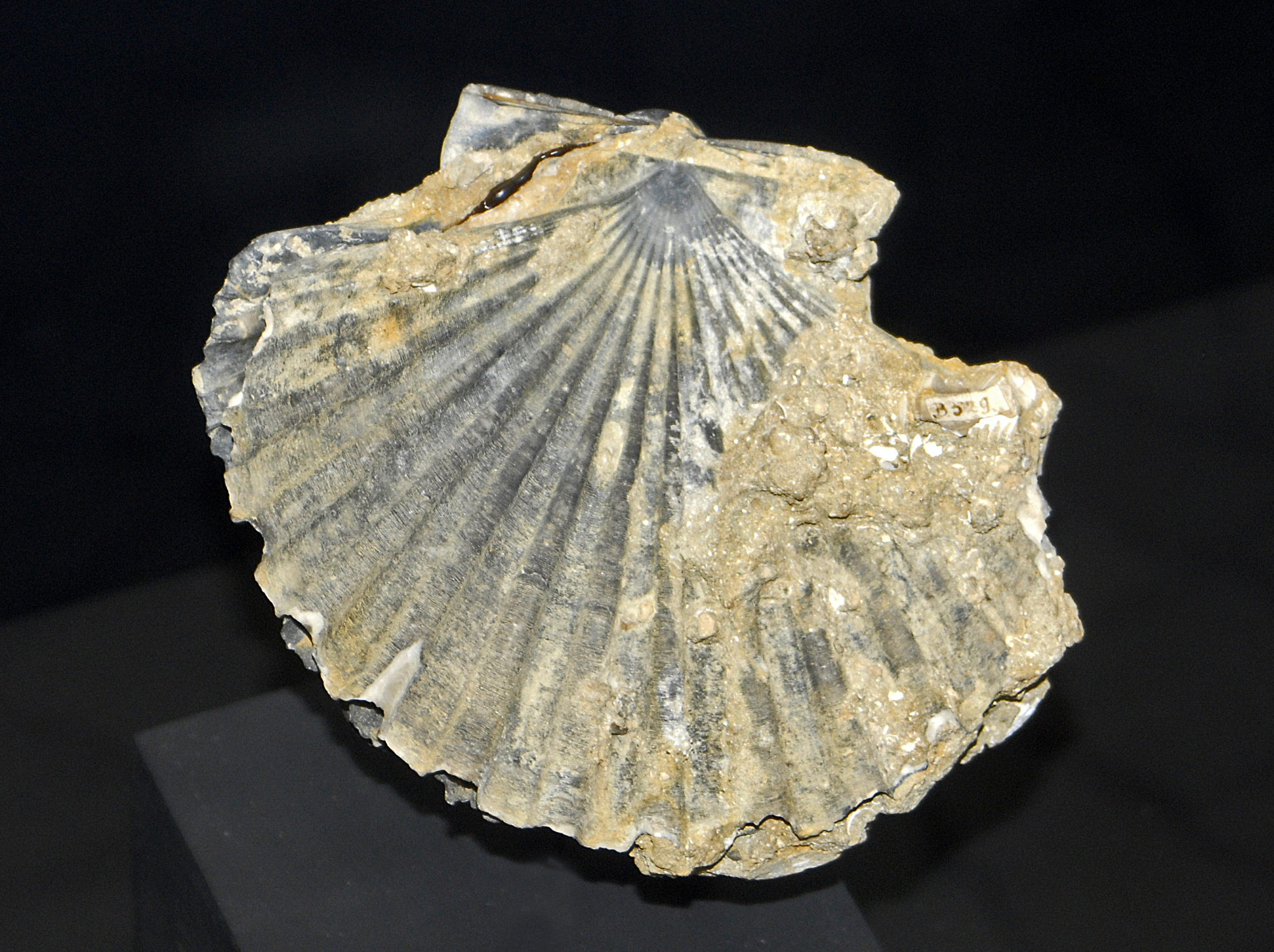 Fossil valve of Pecten jacobaeus from Pliocene of Italy, on display at Museo di Scienze Naturali Enrico Caffi, Bergamo